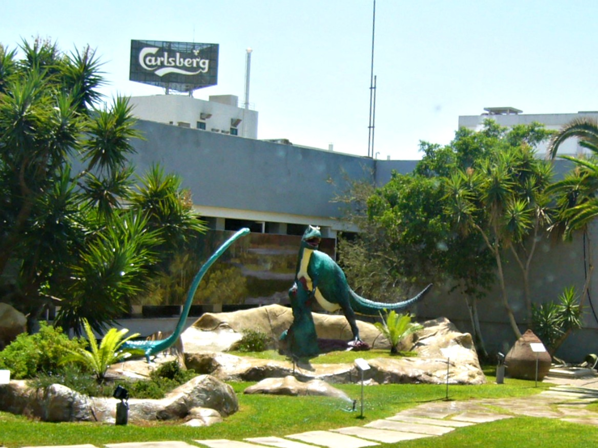 Museum of Natural History in Nicosia -Dinosaurs in the yard